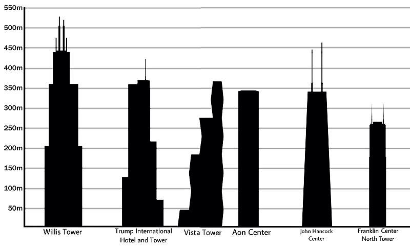 This image shows the six tallest skyscrapers of Chicago in 2019.